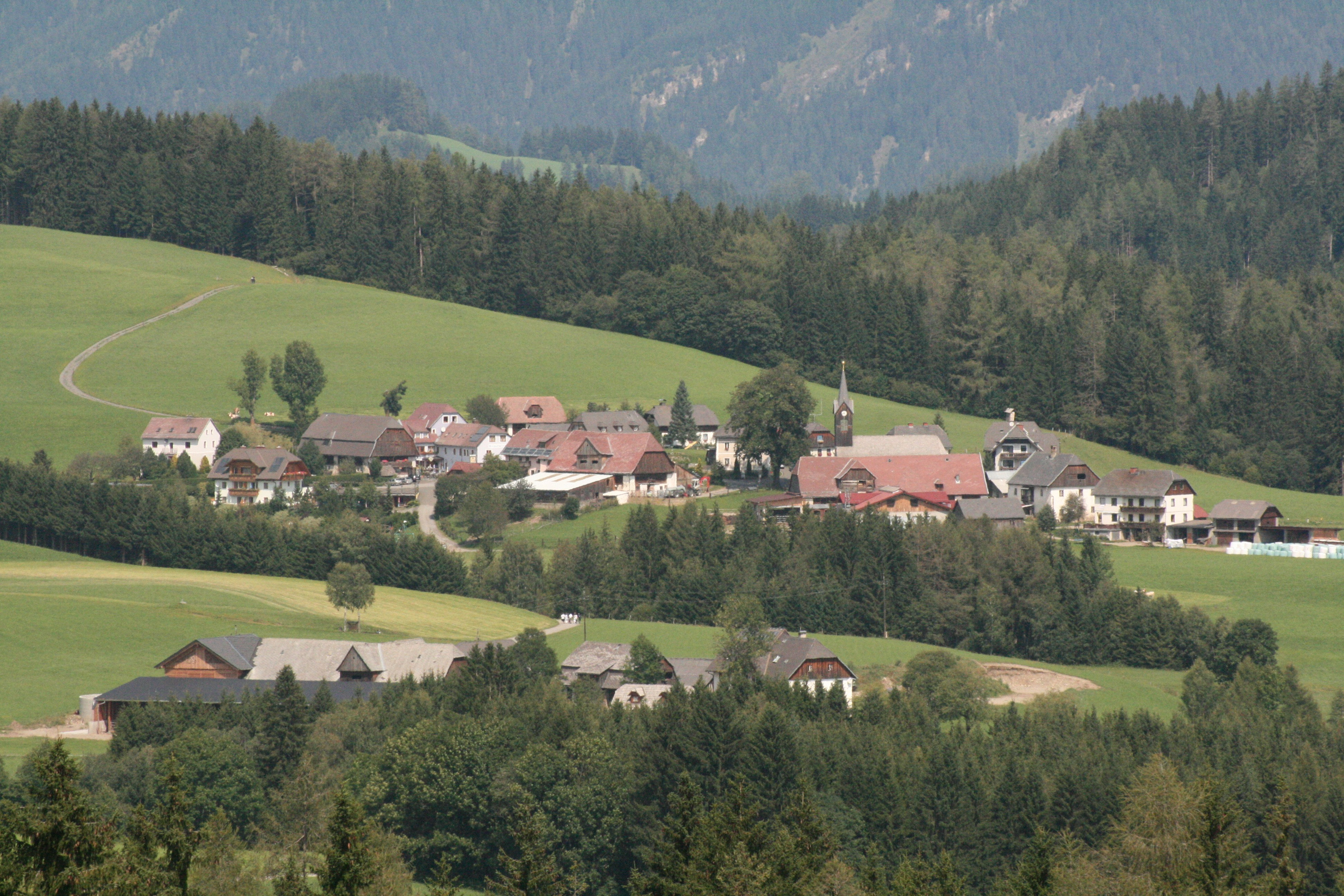 Zeutschach in Styria, Austria, Europe